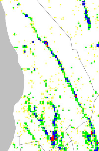 TorsbysBefolkningstäthet